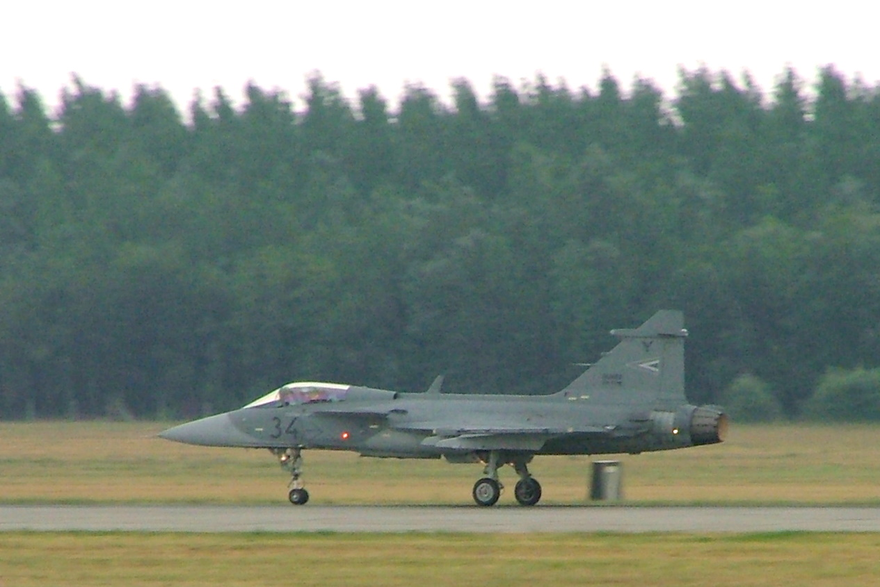 JAS 39 Gripen of the Hungarian Air Force, Kecskemét open day, 2007.